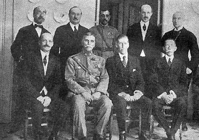 The President of Portugal Gomes da Costa and the foreign ambassadors. 1926.